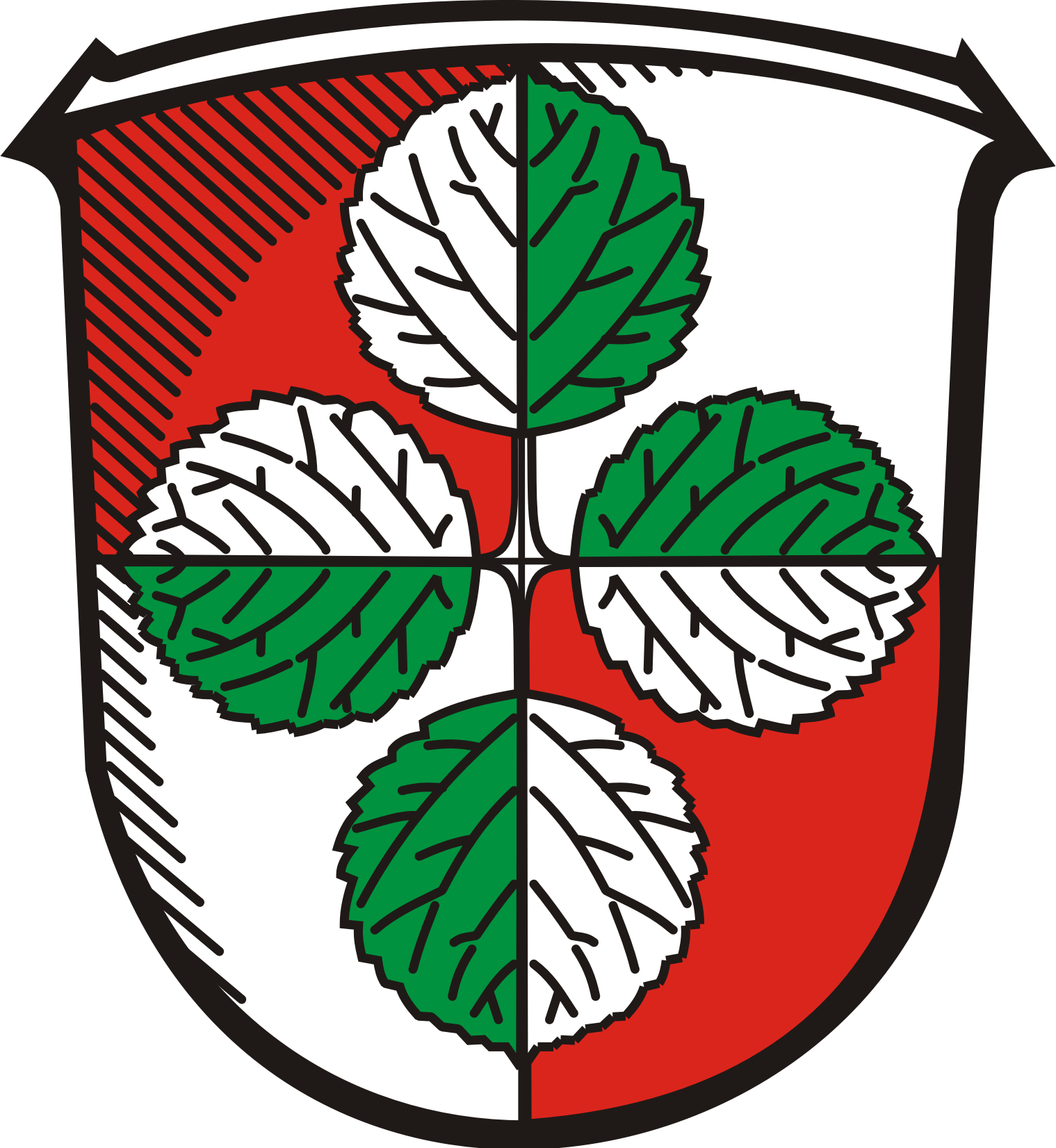 Coat of Arms of Espenau